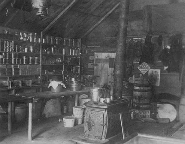 Carson's Trading Post, the earliest white business in Bemidji, Minnesota, 1894.